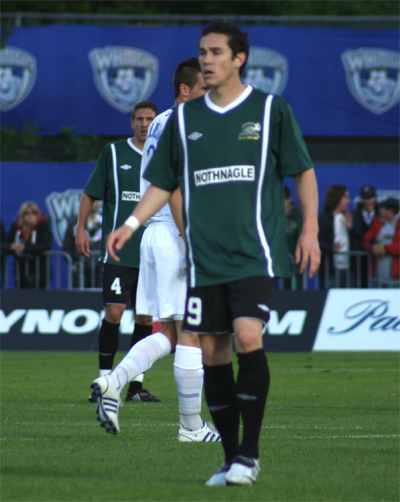 A picture of Darren Spicer of the Rhochester Rhinos. Taken in Vancouver on May 22, 2010 by Lucas Teodoro da Silva.